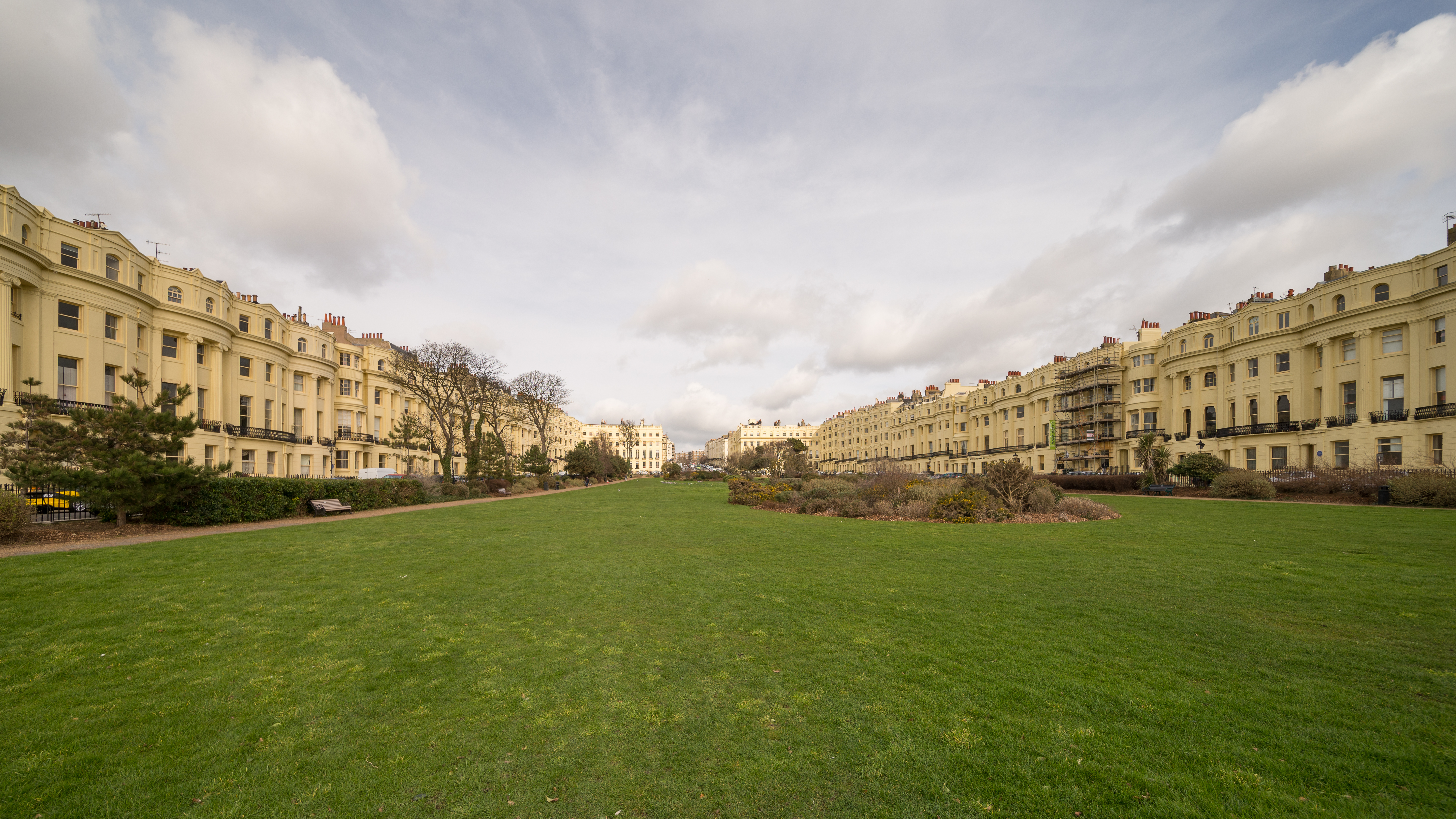 Brunswick estate and Brunswick Square in Hove (part of Brighton and Hove). A famous examples of Regency architecture.